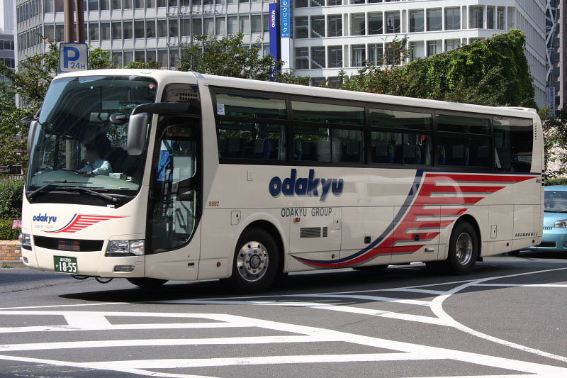 Odakyu Hakone Highway Bus's express bus (Car No.8892 / Mitsubishi Fuso Aero Ace BKG-MS96JP / MFBM body) at Shinjuku Station West Exit, Shinjuku-ku, Tokyo, Japan.